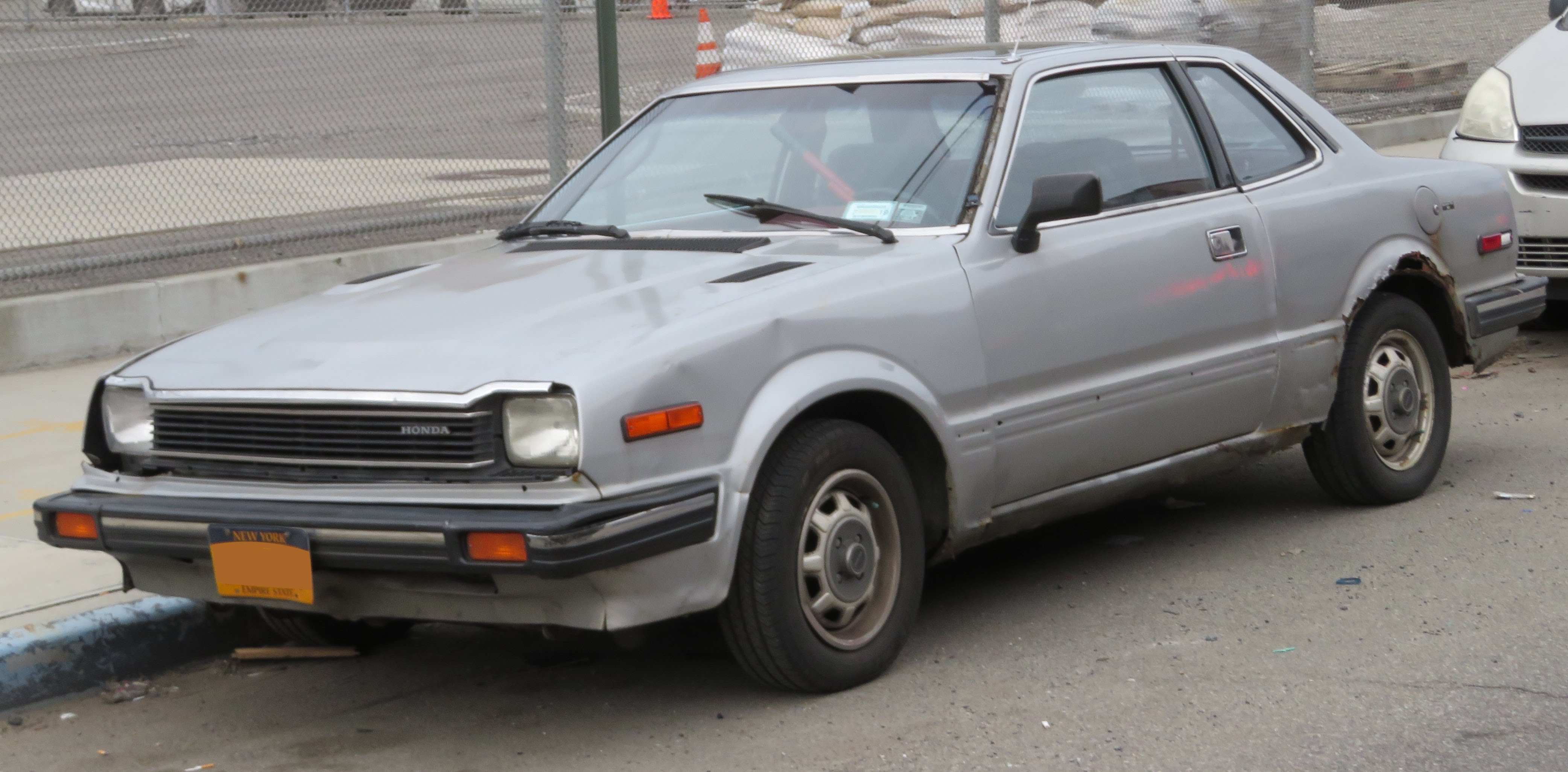 Spotted in Queens, New York